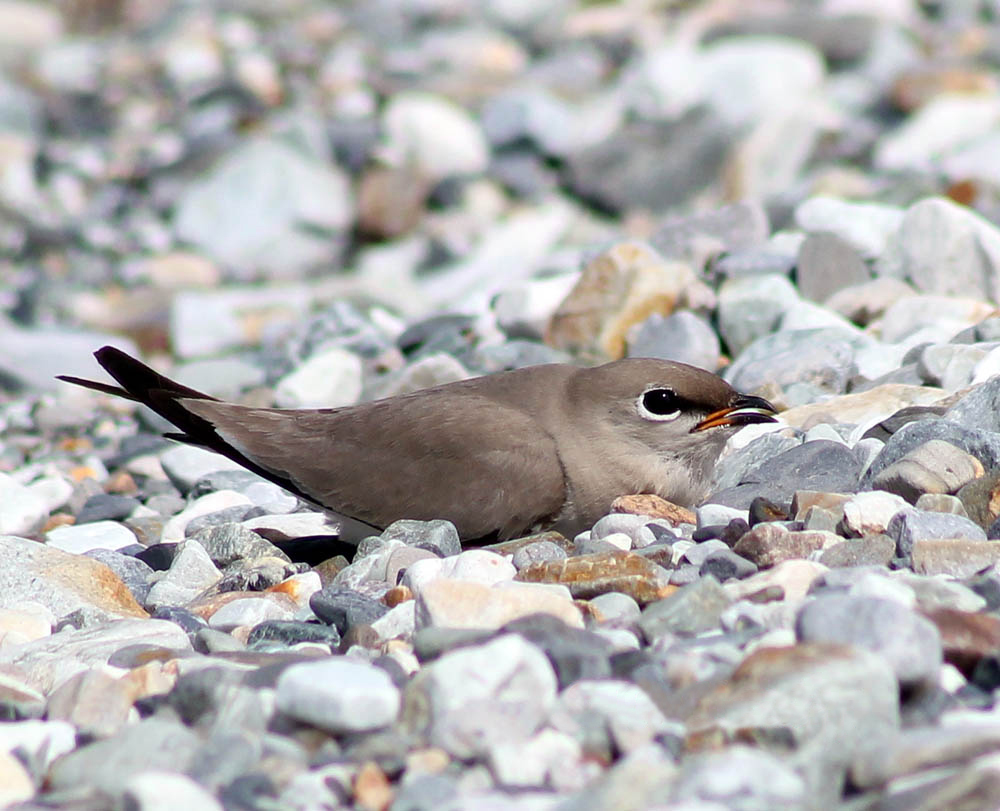 Little Pratincole Glareola lactea at Jalpaiguri, West Bengal, India